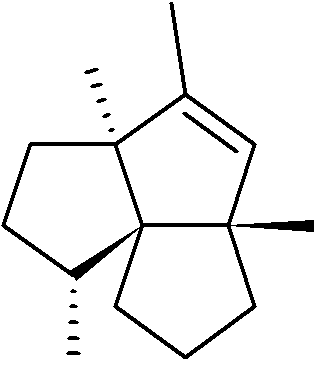 Chemical structure of isocomene